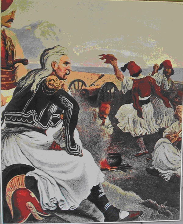 Kolokotronis and his wariors